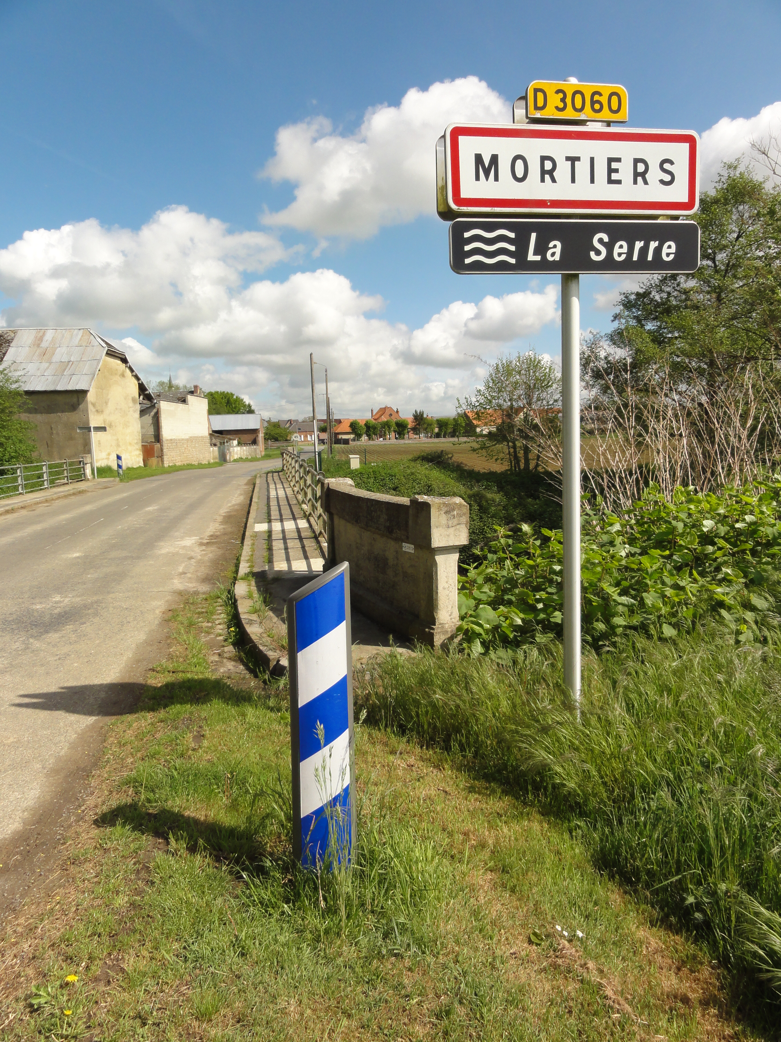 Mortiers (Aisne) city limit sign, pont sur la Serre